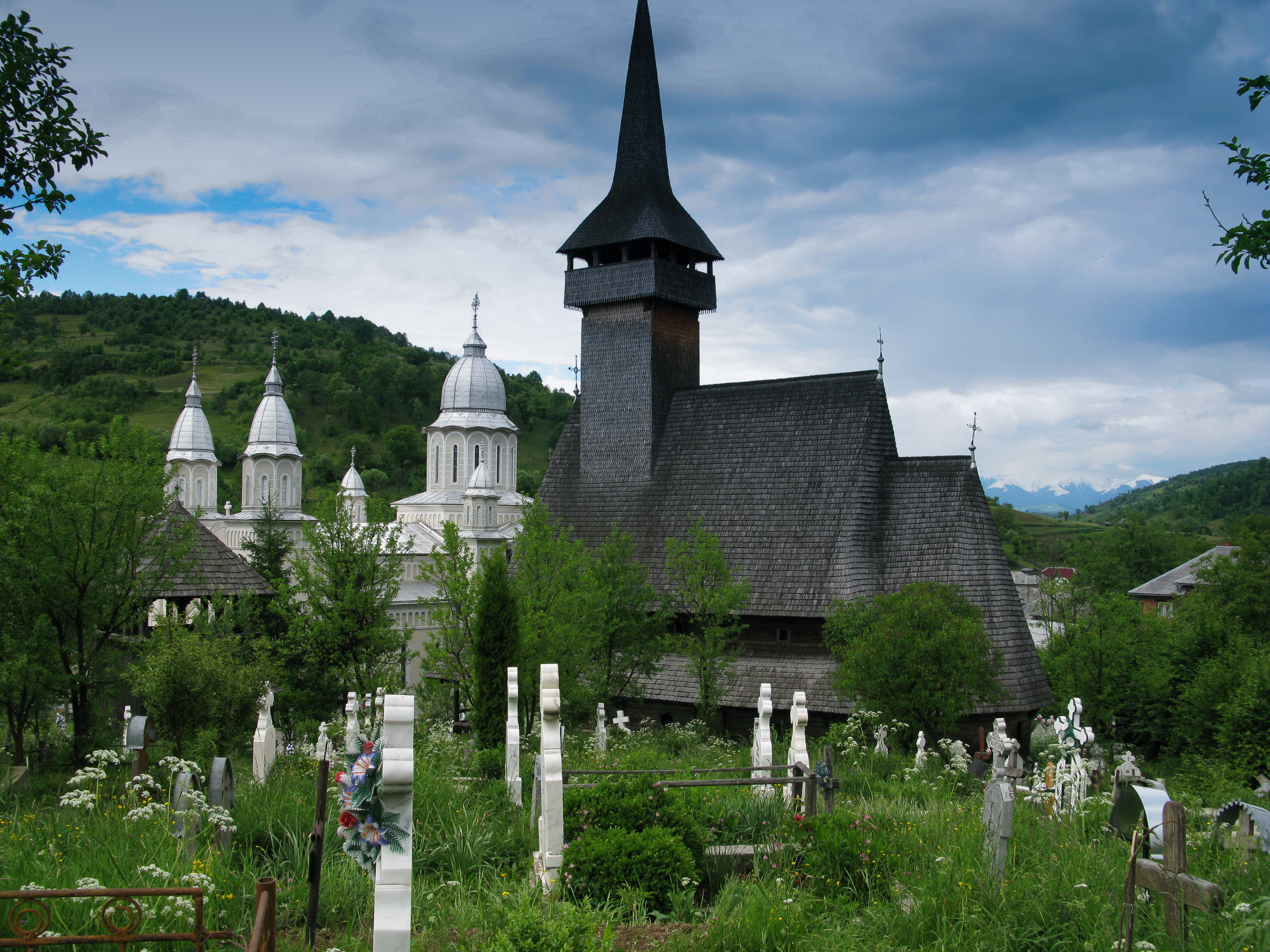 Wooden orthodox churche in Botiza / Maramureş in north of Rumania / EU. EU-information board: Operation Villages Roumains (1997. Financed by European Union - Phare programme for county tourism co-ordinated by Romanian Villages Operation): This church dates from 1699, but was originally in Vişeu de Jos. It was brought to Botiza at the end of the 19th Century, replacing an earlier church here. In plan, the naos and pronaos make up a rectangle, from which the polygonal sanctuary apse protrudes. At the west end there is an open porch which is larger than is usual in Maramureş churches. The roof has eaves at two levels, the lower eaves being continuous all round the building. A bell tower with a gallery and a slender spire rises above the pronaos. Note the door frame at the entrance, which is decorated in the style of a Maramureş gate, and the twisted rope motif carved around the church. In 1899, after the church had been brought to Botiza, the interior was restored and painted by Dionisie luga and his daughter Aurelia, painters from Nicula (a centre of traditional religious painting near Gherla in Transylvania). The painting consists largely of floral motifs. The iconostasis paintings are probably older than those on the walls. Note on the inside of the entrance door, the painting of Death with a scythe accompanied by several moralising inscriptions (by an unknown artist).